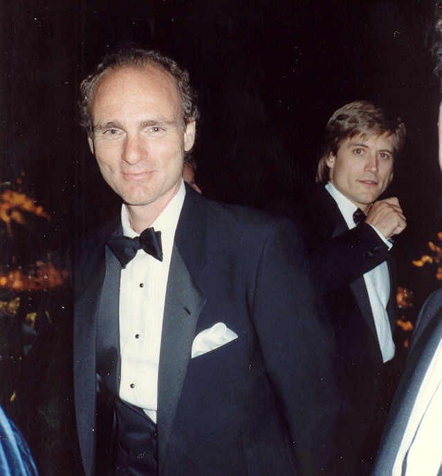 Joe Regalbuto and unknown handsome guy in the background at the Governor's Ball following the 41st Annual Emmy Awards, 9/17/89 - Permission granted to copy, publish, broadcast or post but please credit "photo by Alan Light" if you can